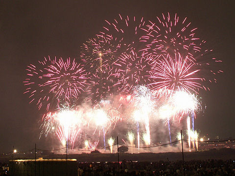 Digital Starmine.